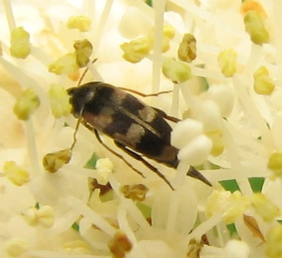 Tumbling flower beetle, Falsomordellistena pubescens. Pennypack Restoration Trust, Montgomery County, Pennsylvania, USA.